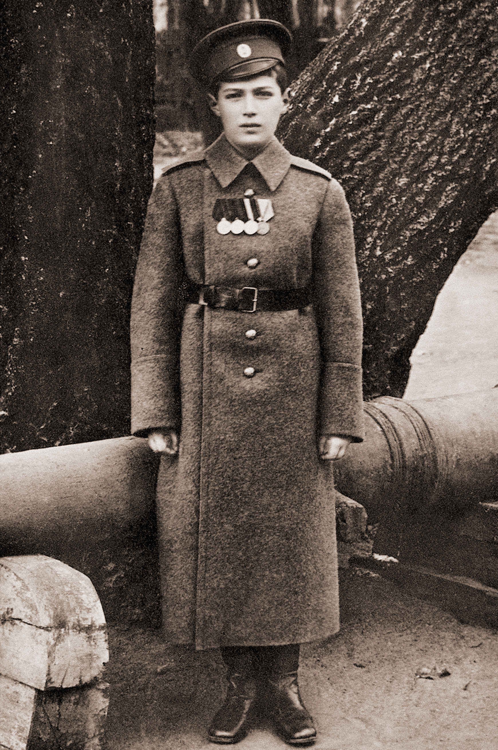 Tsarevich Alexei Nikolaevich of Russia in a Military uniform in front of a cannon.